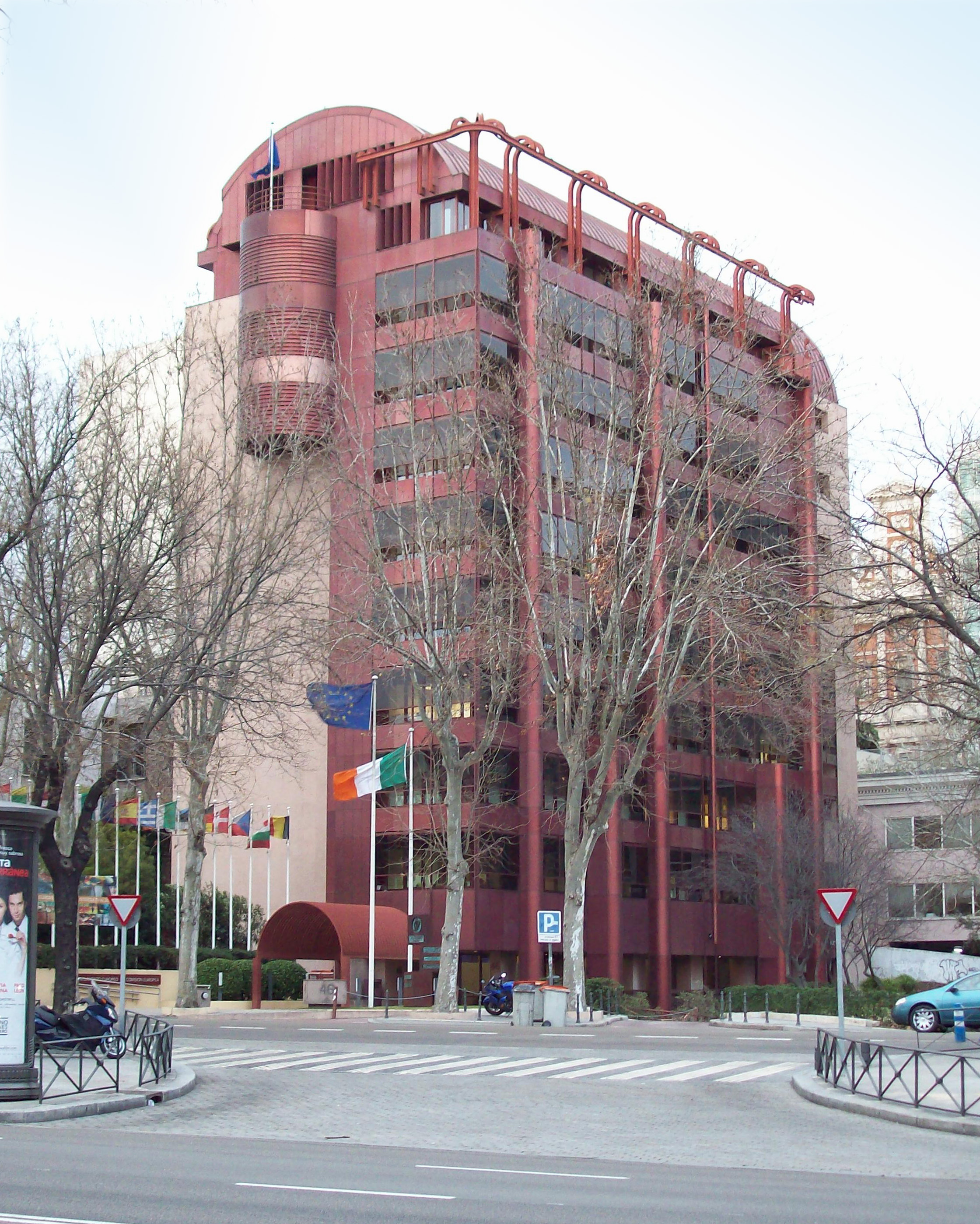 Seat of the Irish Embassy in Madrid (Spain) and offices of the European Parliament, at 46 Paseo de la Castellana (avenue), in Salamanca district. Building was projected in 1972 by architects José Antonio Corrales Gutiérrez and Ramón Vázquez Molezún, and built from 1973 to 1975 for Bankunión (a former bank).